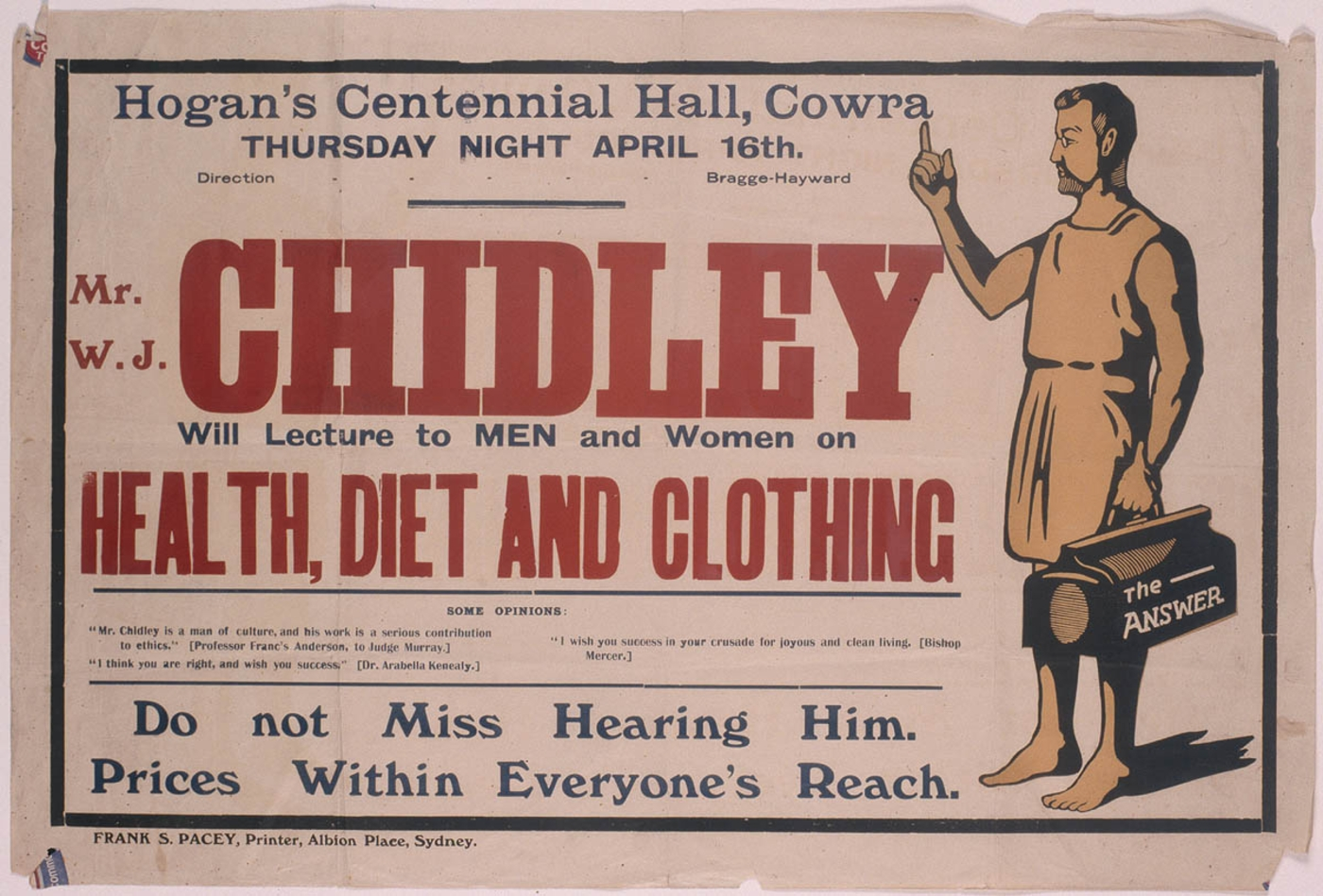 Advertising poster promoting public lecture and publication by William Chidley 1927